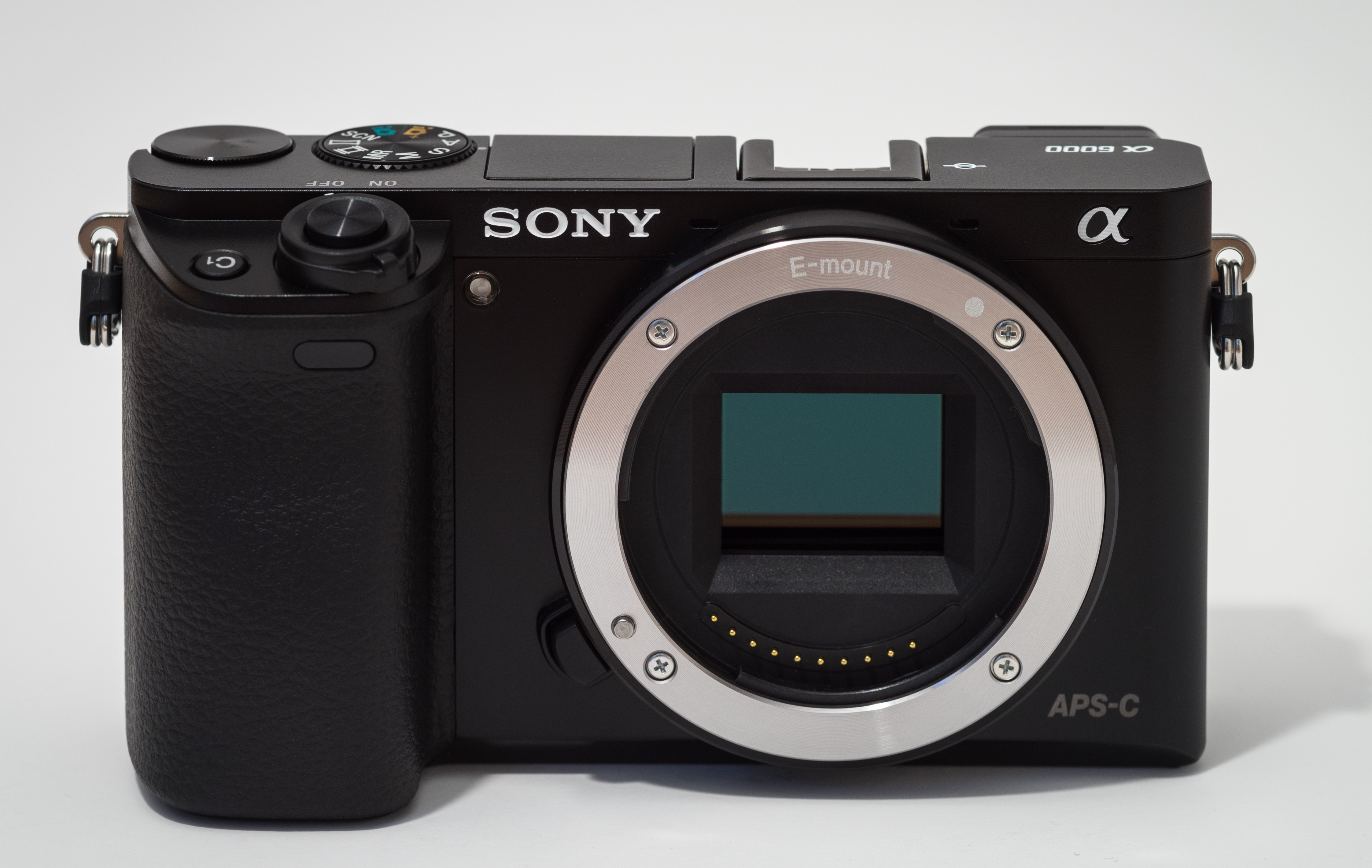 Sony Alpha ILCE-6000 APS-C-frame camera (mirrorless interchangeable-lens camera).